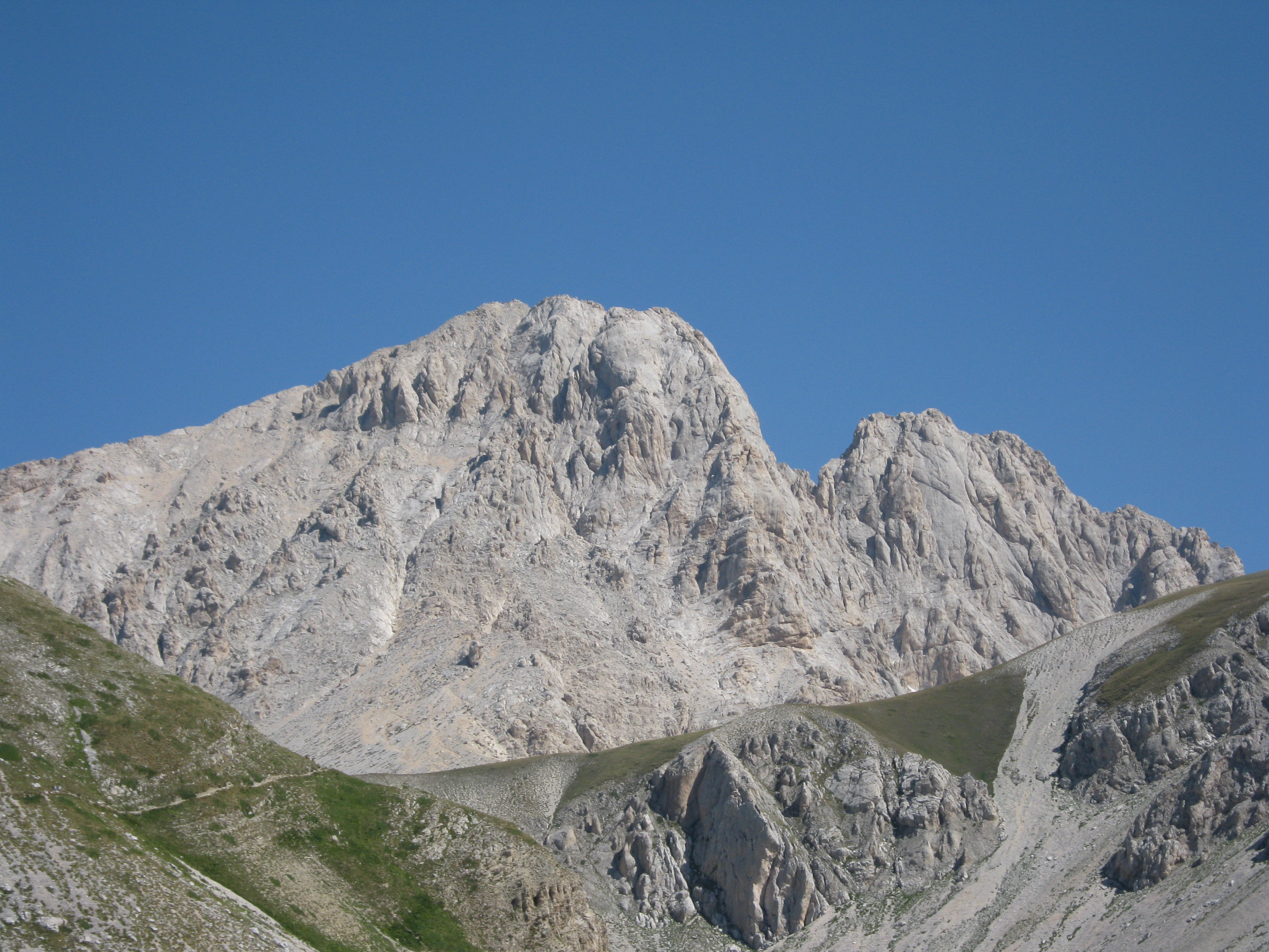 Gran Sasso mountain, the highest peak of the Apennines, The Corno Grande